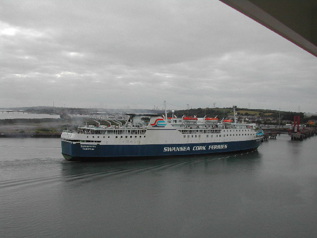 Ringaskiddy ferry terminal, Cork Harbour, County Cork. The Swansea - Cork ferry docks at Ringaskiddy, nine miles south east of the City of Cork. This is the view looking east.